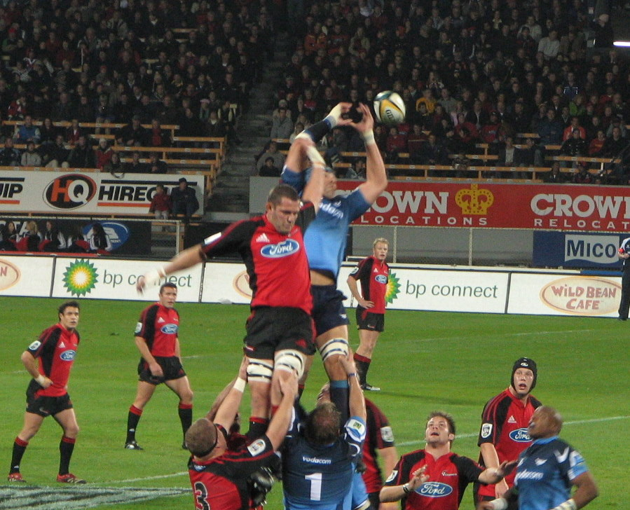 Crusaders vs. Bulls, 2006 Super 14 semi-final in Christchurch, New Zealand. Crusaders won 35-15